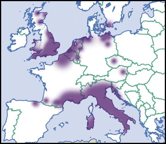 Monacha cantiana (Montagu, 1803). Distribution in Europe, scientific state of knowledge of 2012. Source description in English. Light colour indicated rare occurrences or regions where the species could eventually be expected to occur. Dark colour indicated relatively reliable occurrences, as well as regions where the species was expected to occur, and where the species was not known to be extremely rare. Dark colour indications were not necessarily based on published records. Species summary in AnimalBase